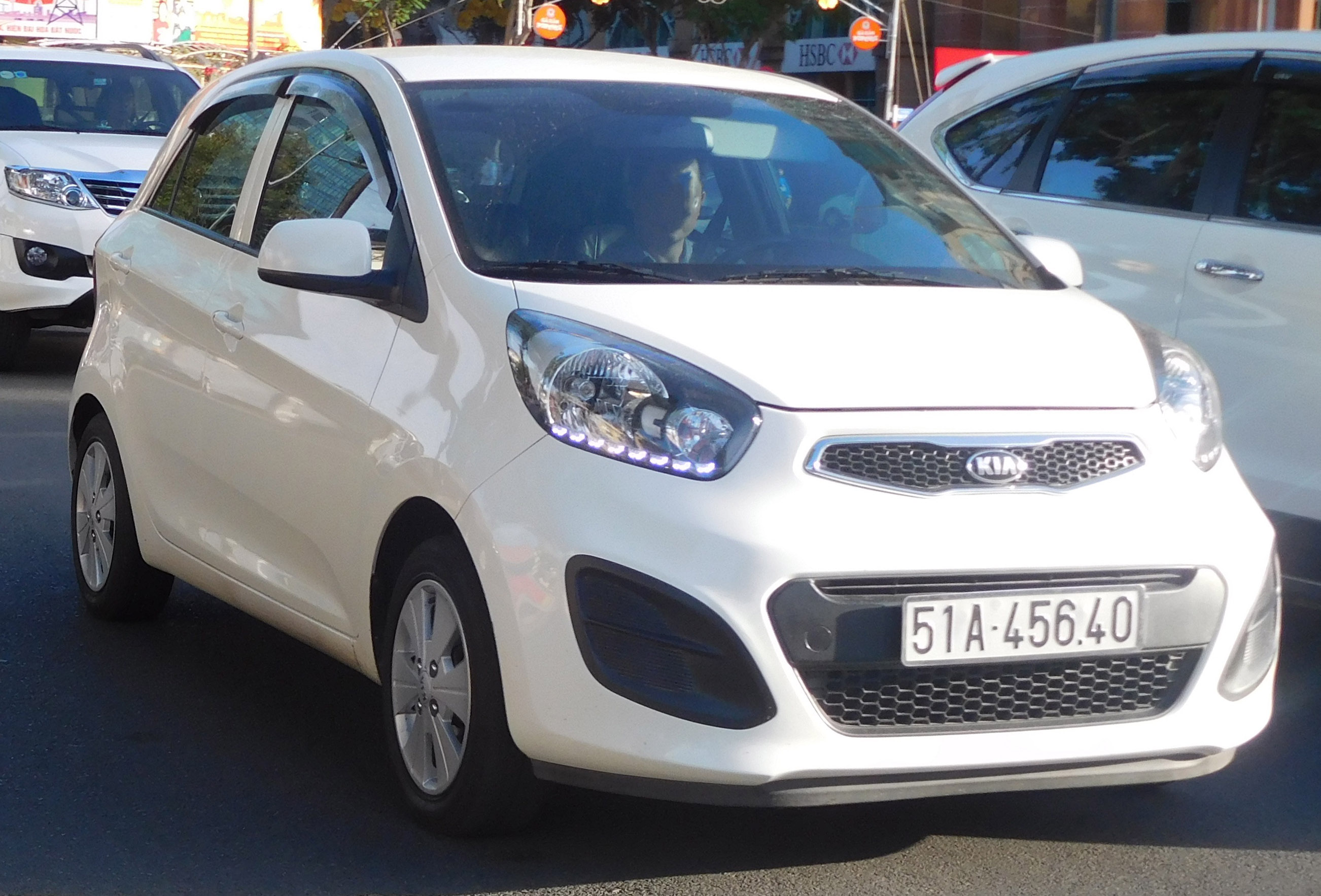 White Kia Morning second generation in traffic.